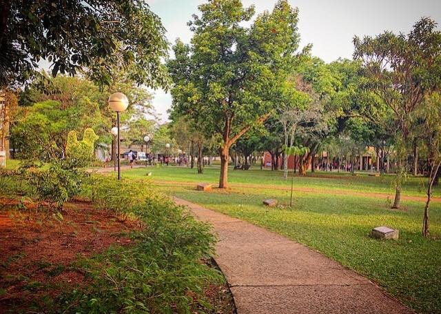 Autumn Afternoon on the UNESP Marilia